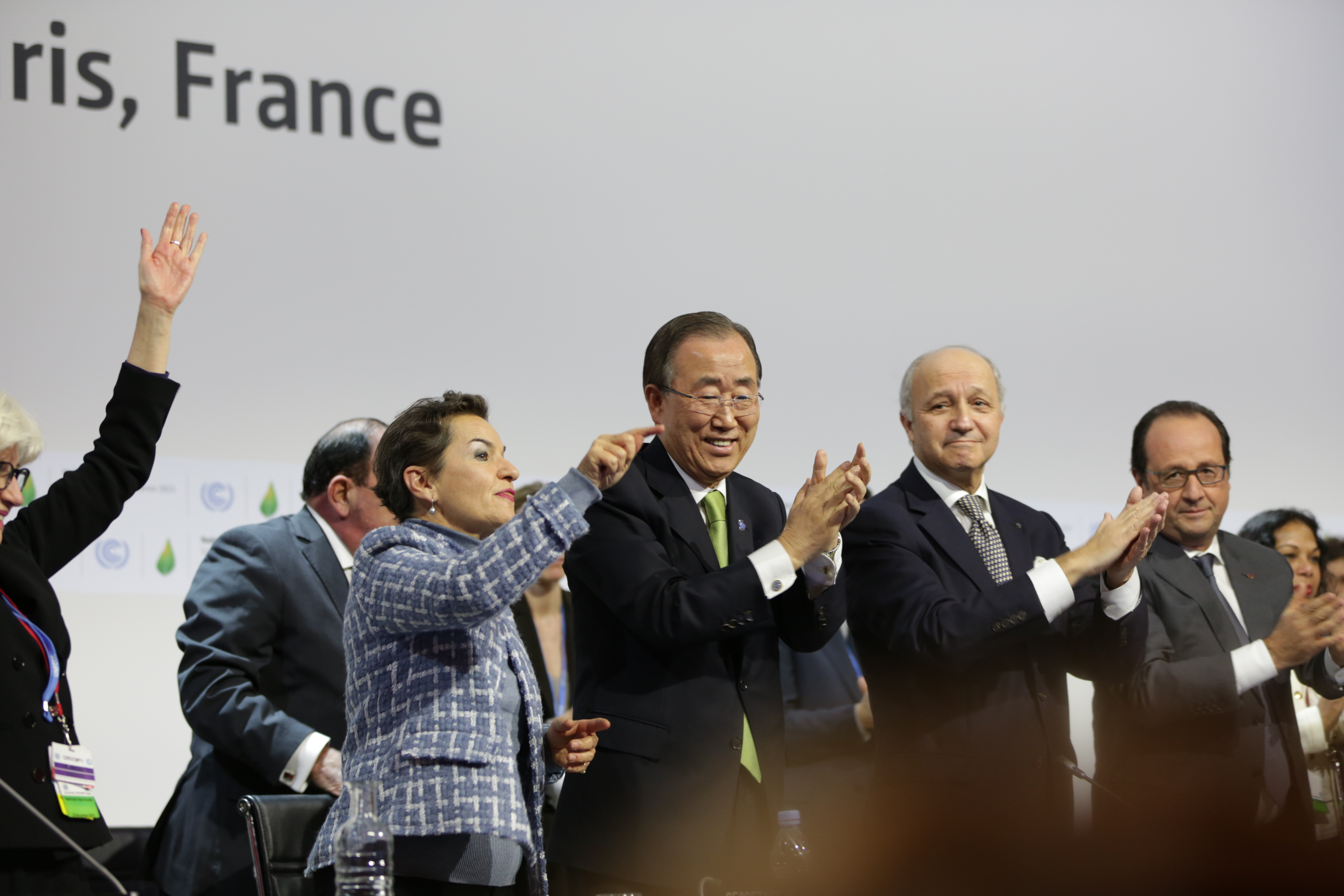 Adoption of the Paris Agreement